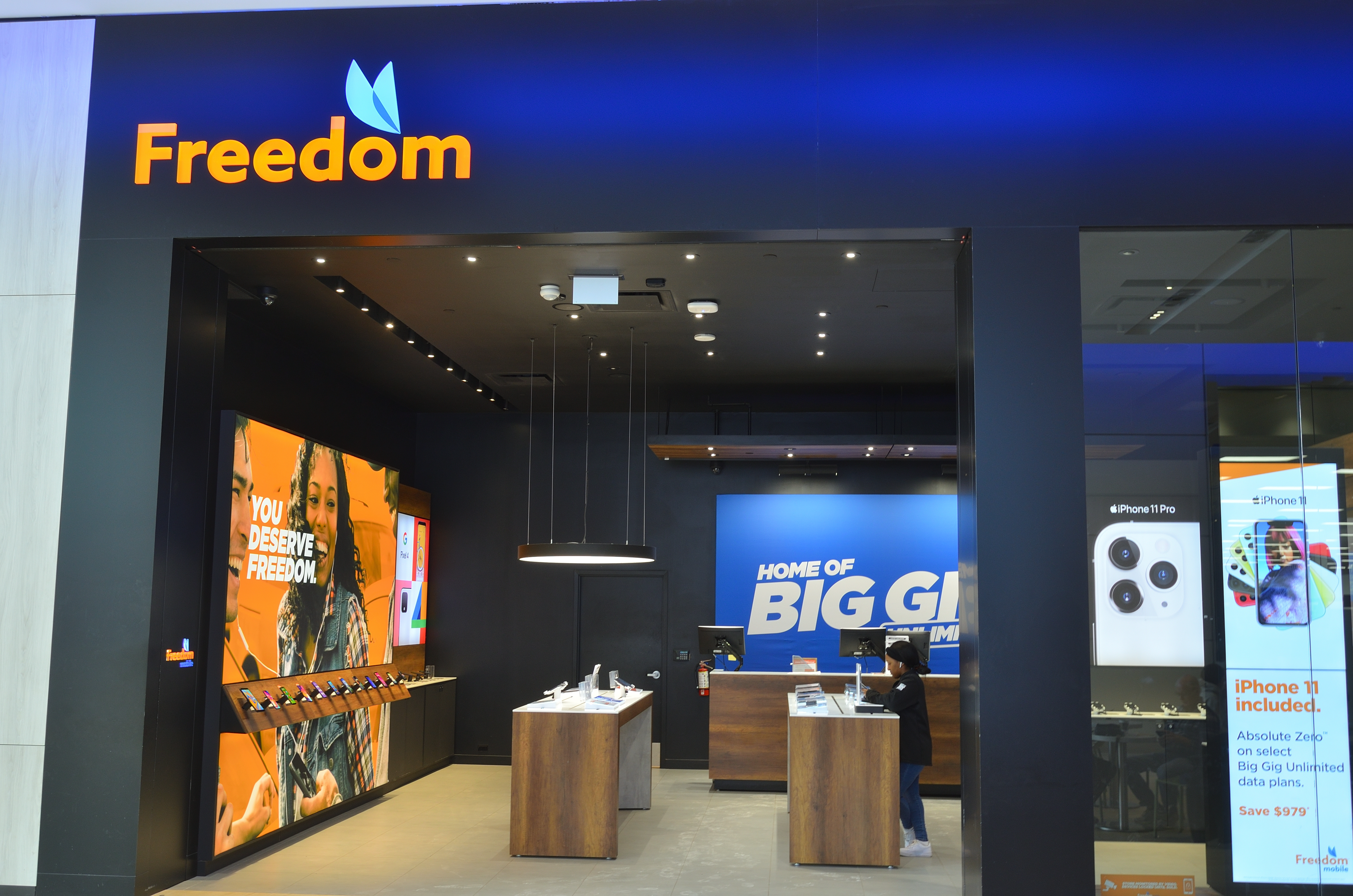 Freedom Mobile at Hillcrest Mall